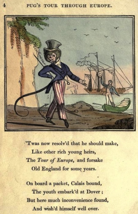 Page from Pug's Tour, illustrated in color with verse below. Published by John Harris, 1824